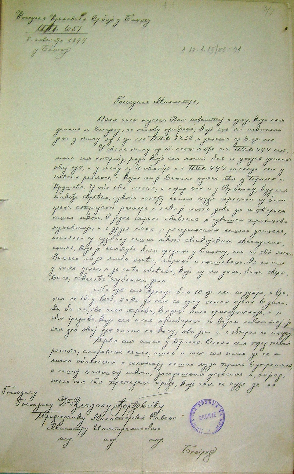 Report from Mihailo Ristic, Consul in Bitola, to Vladan Djordjevic, president of the Council of Ministers and minister of the People's Republic, about the state of "Serbian nationality" in Prilep (4500 houses only 50 declared as "Serbs", a total of 3000 Christians, 1500 Turkish). He recommended to be build Serbian church, even a chapel, since there are only Greek St. Preobrazhdenie, build in 1871, and Bulgarian church, which is the first church in Prilep, build in 1838. (Bitola, 5 November 1899) This media file is produced by Wikipedian in Residence in Category:Wikipedian in Residence at DARM in 2016.